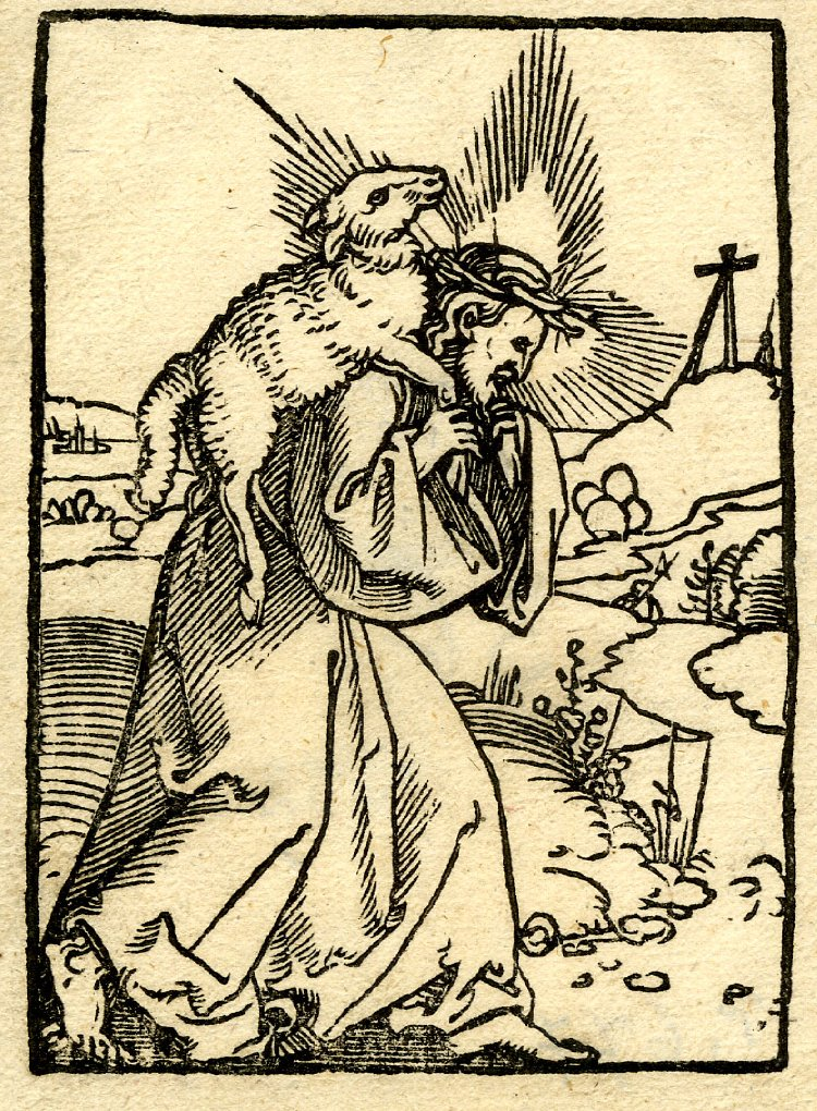 Woodcut of Christ carrying the Lamb, illustration from the prayerbook of Martin Luther